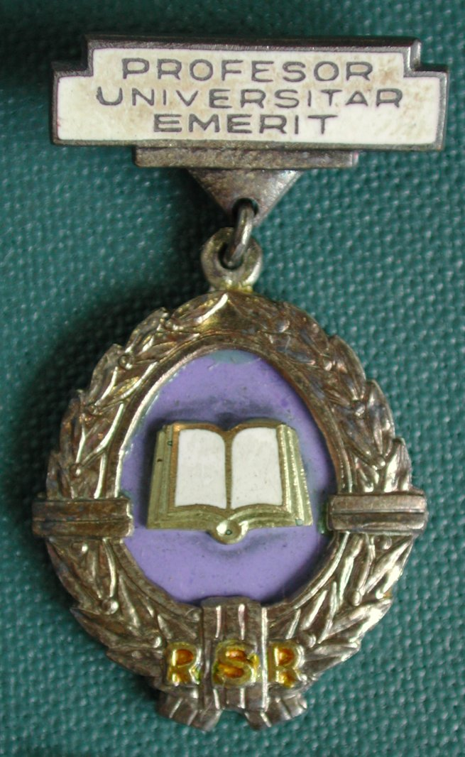 The Medal "Emeritus Professor"